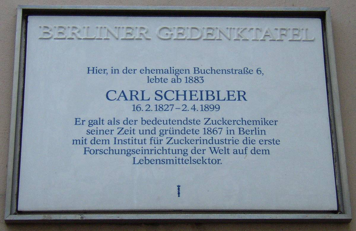 Berlin memorial plaque for Carl Scheibler in Berlin-Tiergarten, Germany